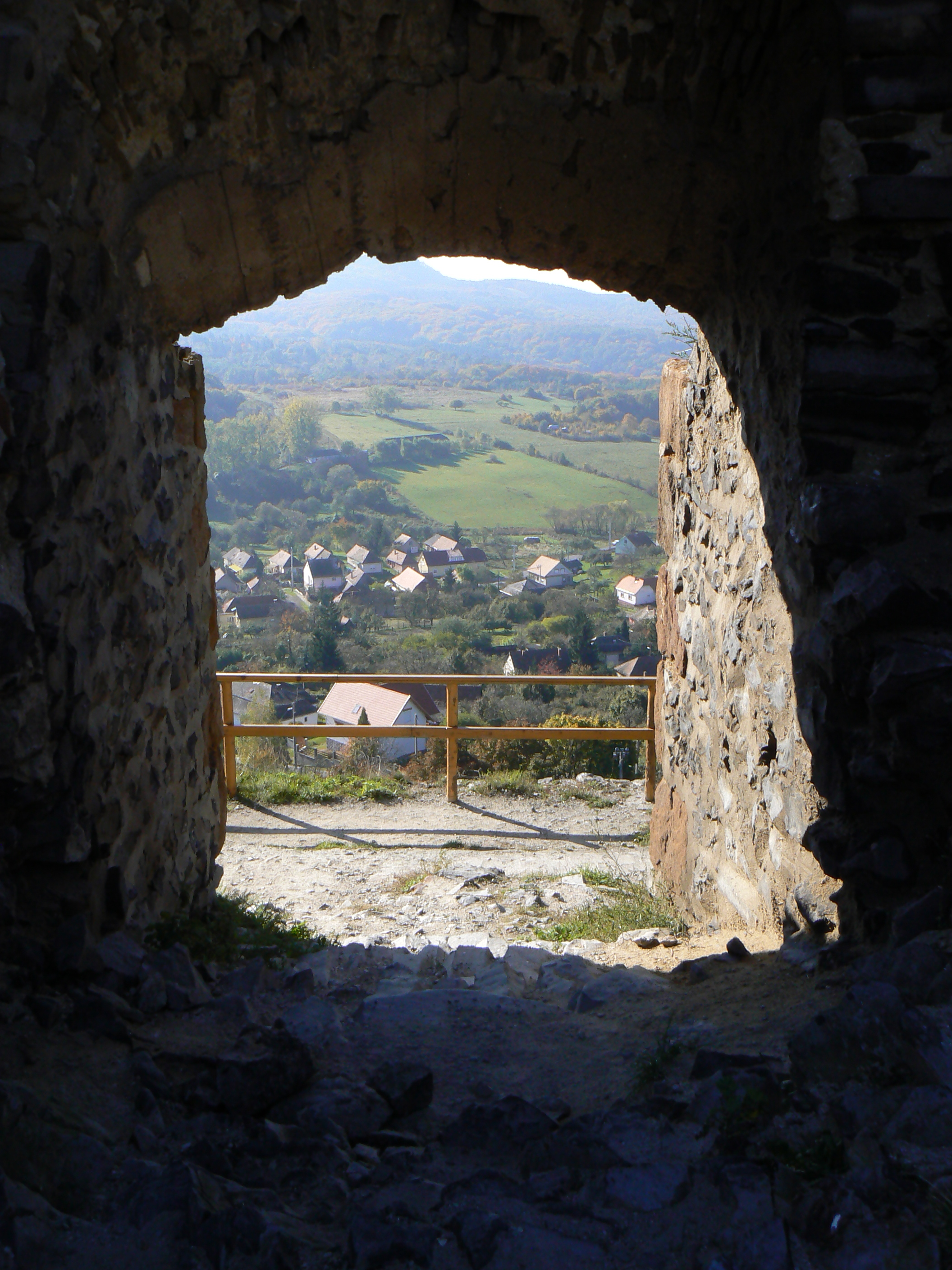 View to the Hungarian village Šomoško from the Šomoška castle, located on the border between Slovakia and Hungary